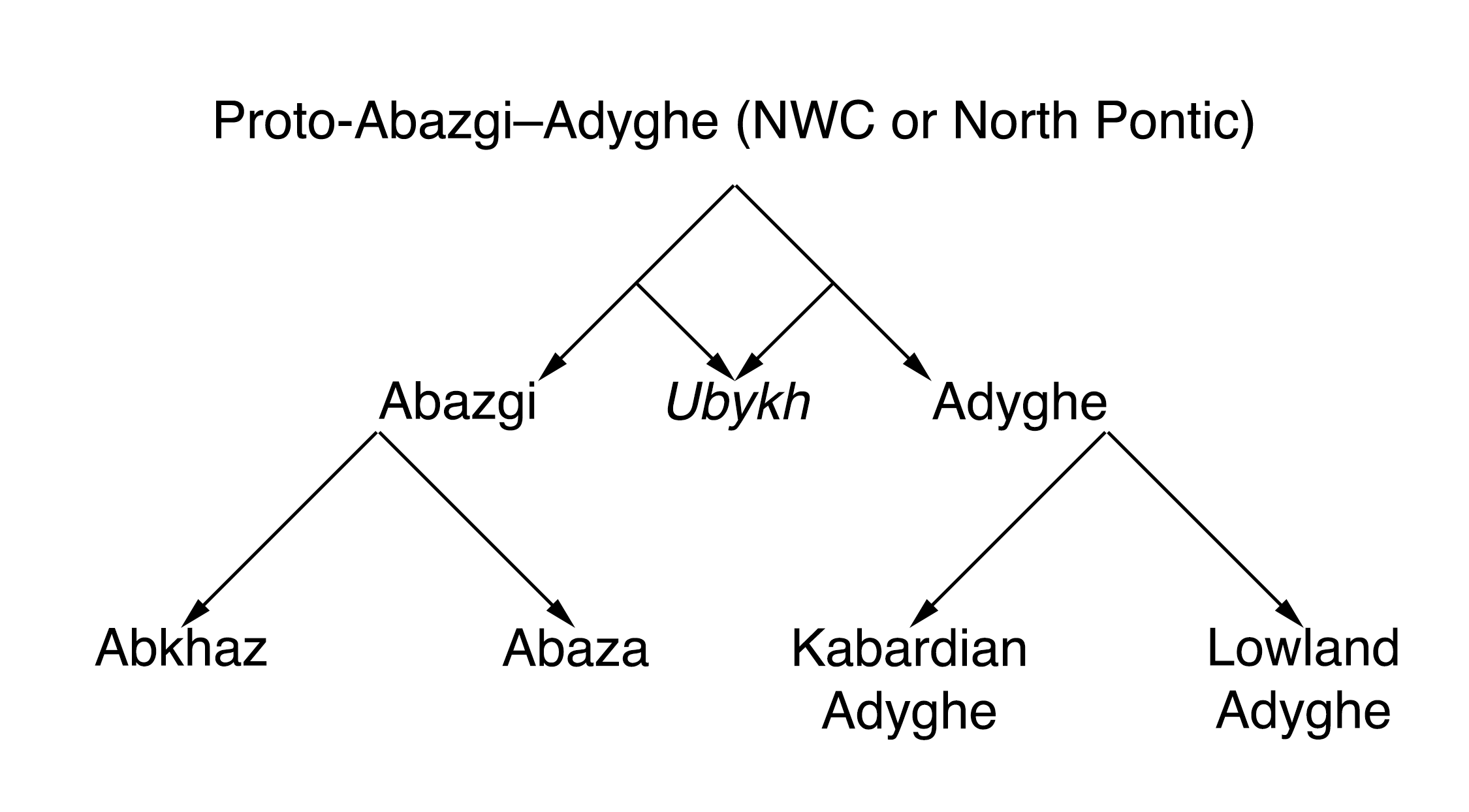 Main branches of the Northwest Caucasian or Adyghe-Abkhaz language family (Abkhaz-Abaza/Abazgi, Ubykh and other Circassian/Adyghe dialects) in one possible, but discussed genealogy and its literary languages (Abkhaz (Аҧсуа бызшәа), Abaza (Абаза бызшва), Kabardian Circassian/Adyghe (Къэбэрдей Адыгэбзэ) and Lowland Circassian/Adyghe (КӀах адыгабзэ)) developed from different dialects.